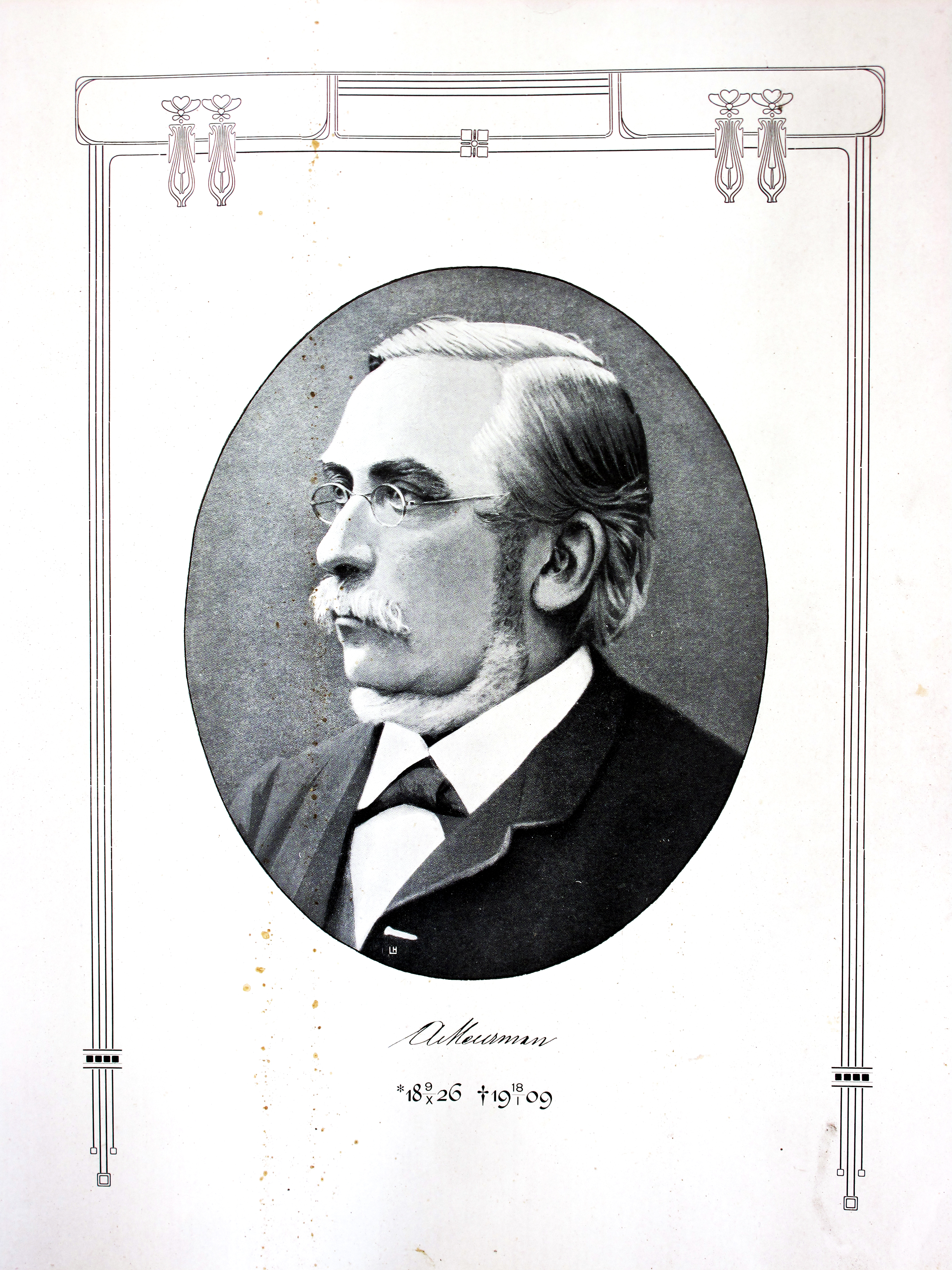 Reproduction of printed portrait by Finnish politician Agaton Meurman. Item digitized from the Toijala Yhteiskoulu Archives.